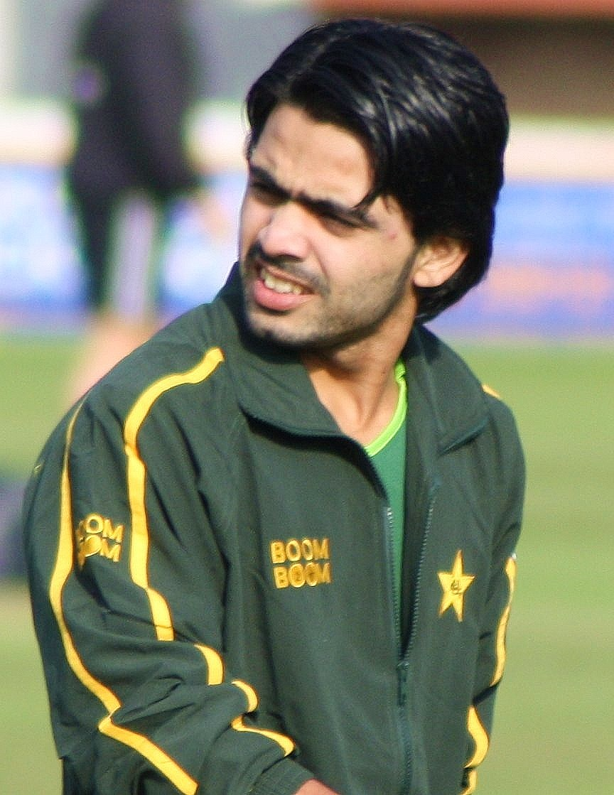 Fawad Alam preparing for a batting net prior to a 50-over warm-up match against Somerset at the County Ground, Taunton, during Pakistan's 2010 tour of England.